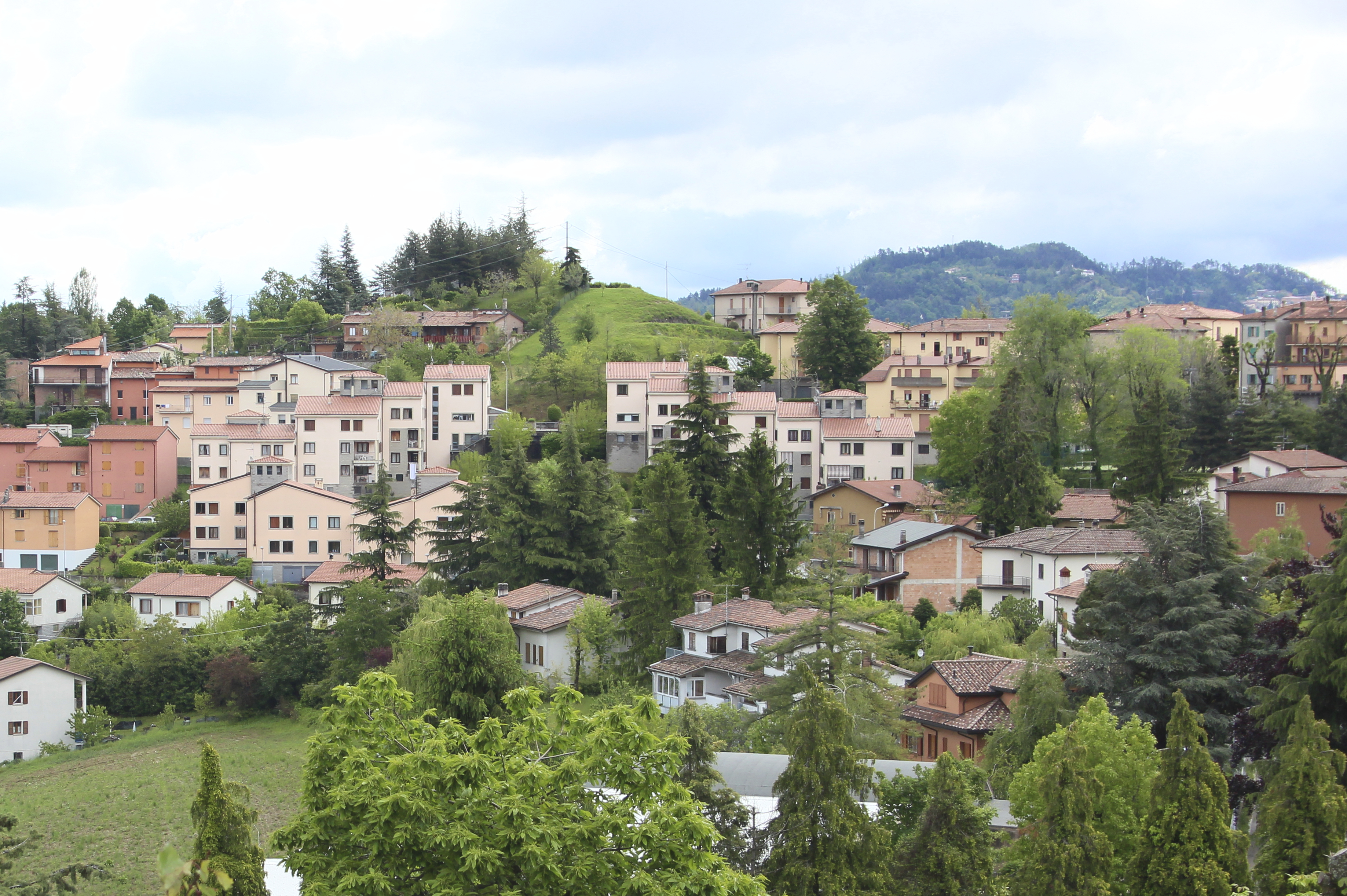 Panorama of Monzuno, Metropolitan City of Bologna, Emilia-Romagna, Italy.